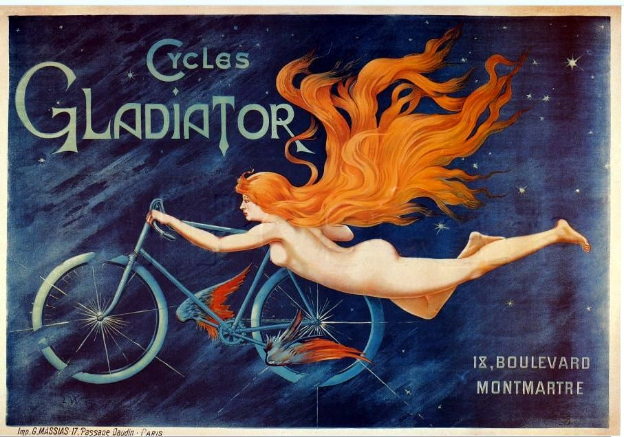 Georges Massias: Ad poster for Cycles Gladiator (Gladiator Cycle Company); Lithograph, dim. : 96.6 cm x 134 cm.